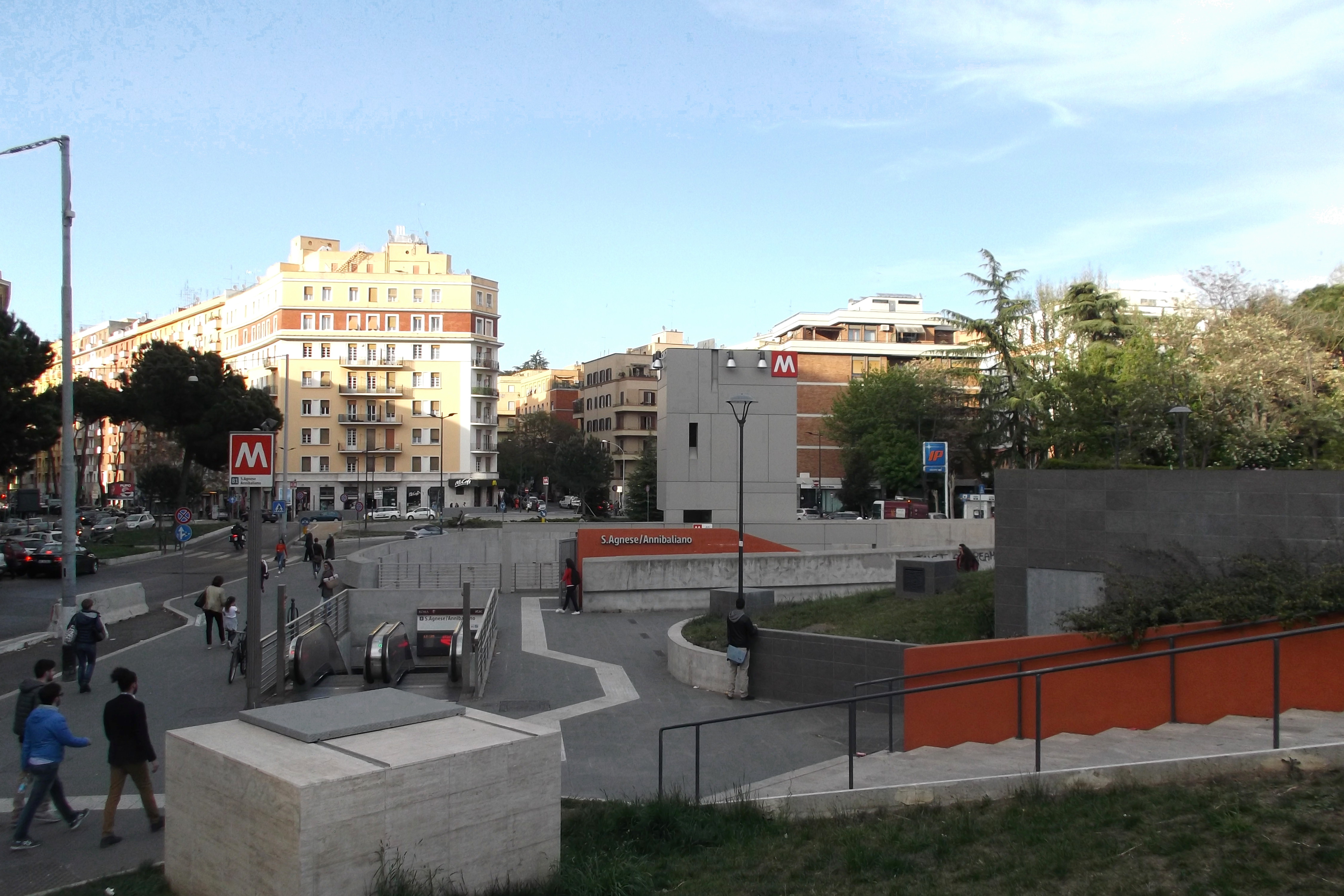 External view of Sant'Agnese-Annibaliano station of Rome Metro